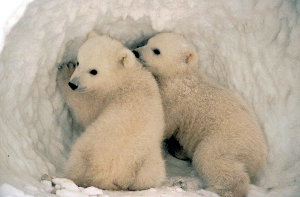 Polar Bear (Ursus maritimus) cubs, Alaska.